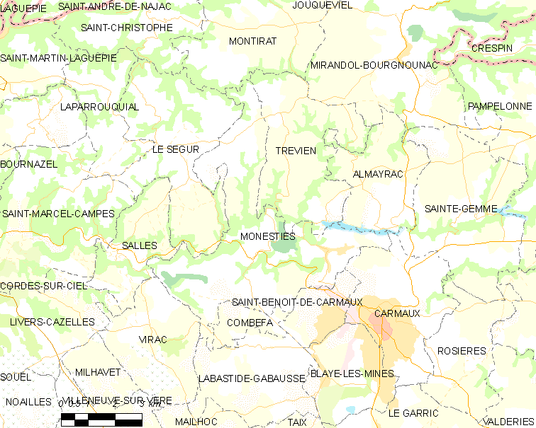 Map of French municipality Monestiés